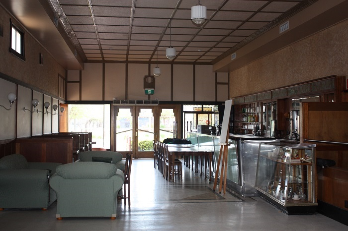 Roxy Theatre and Peters Greek Cafe Complex: Interior of café